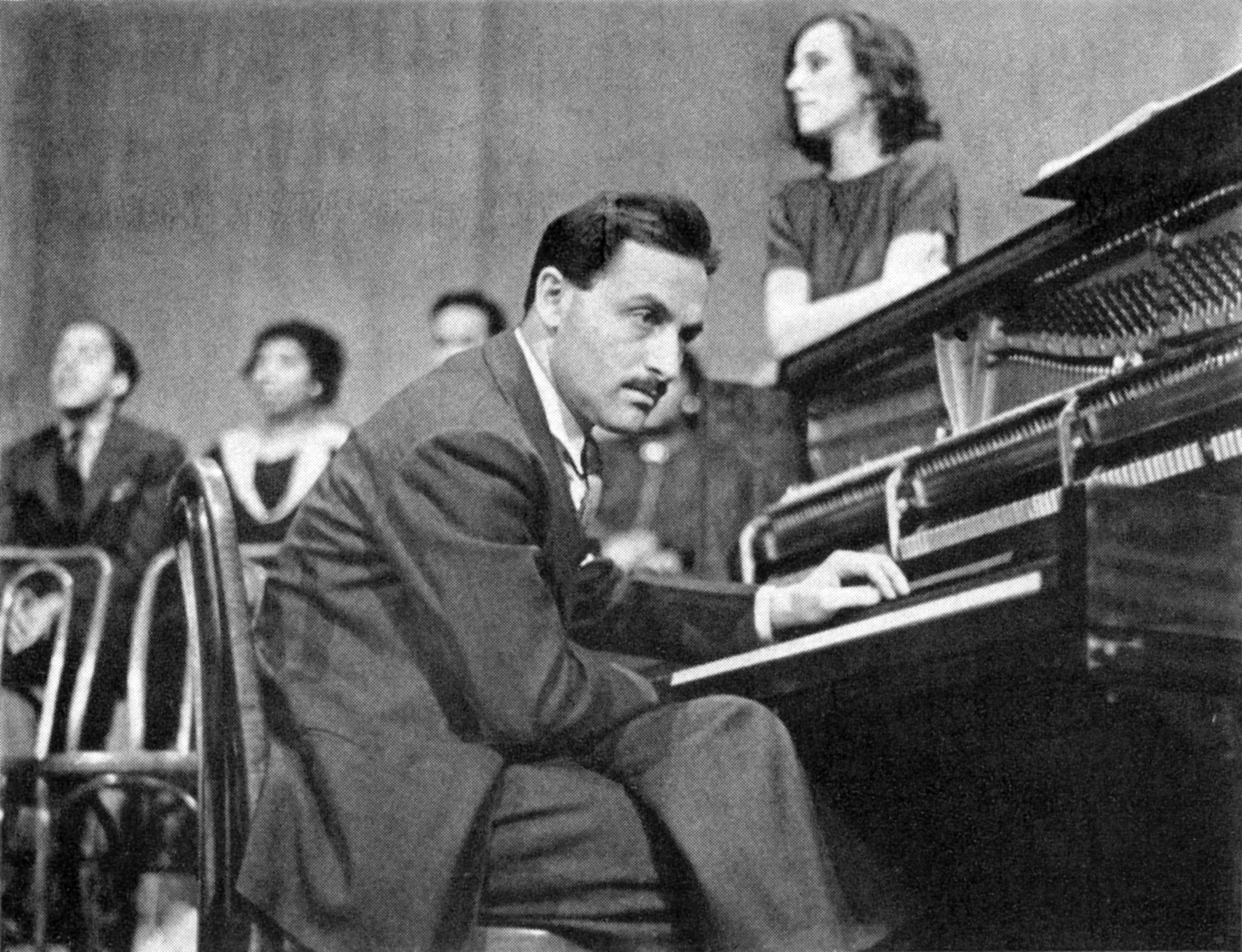 Photograph of Marc Blitzstein (with Olive Stanton leaning on the piano) performing The Cradle Will Rock in New York City (January 3, 1938) Caption reads as follows: M. Blitzstein, author, orchestra, actor, sound-effects man.